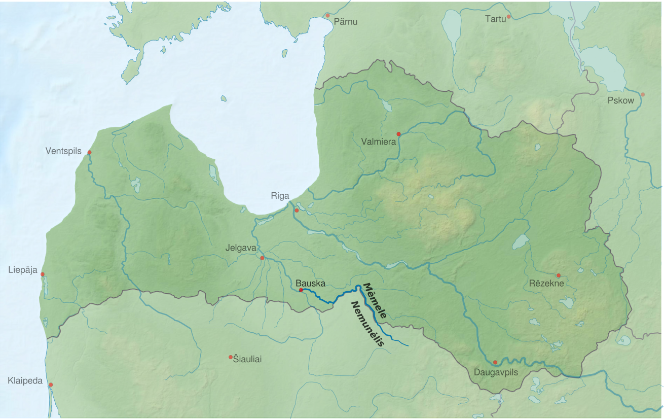 Map of river Mēmele in Latvia and Lithuania based on relief-location maps by users: NNW, Виктор В, Alexrk2, Chumwa, Karlis